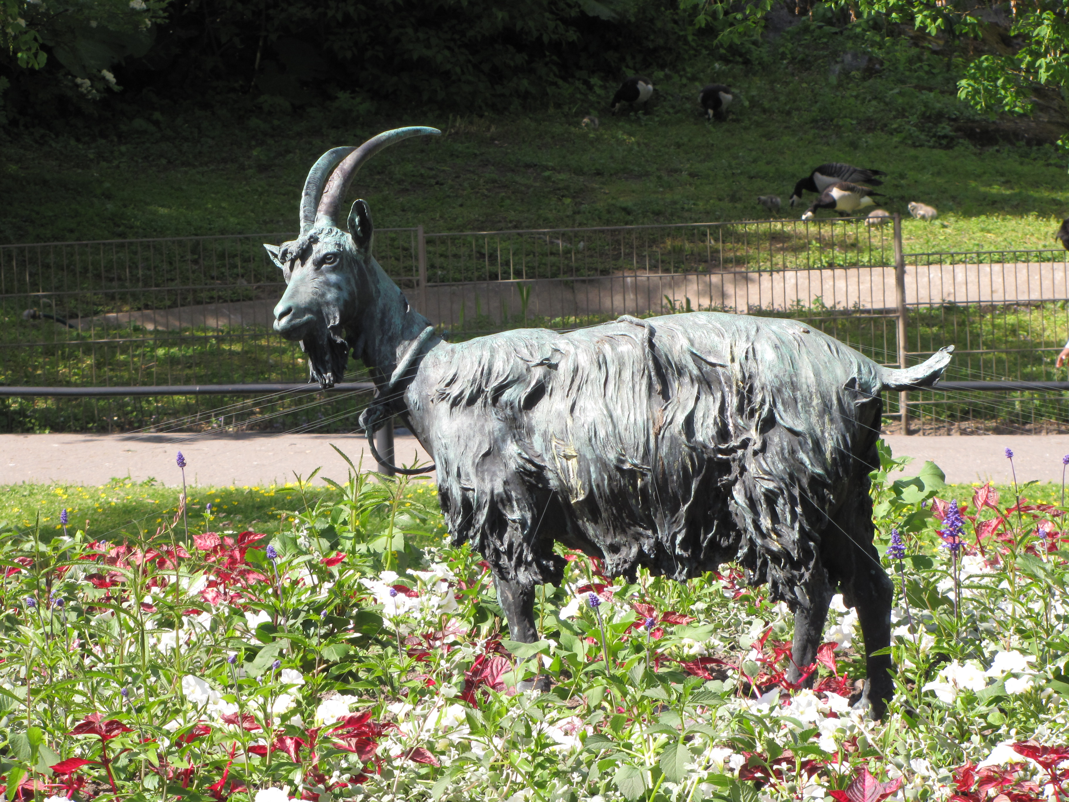 Pukki (Buck) statue in Korkeasaari zoo, sculpted by Constantino Pandiani (1837 - 1922). Originally purchased at the Paris World Fair in 1889 by J.J. Pippingsköld. Donated to the city of Helsinki by his estate in 1892.